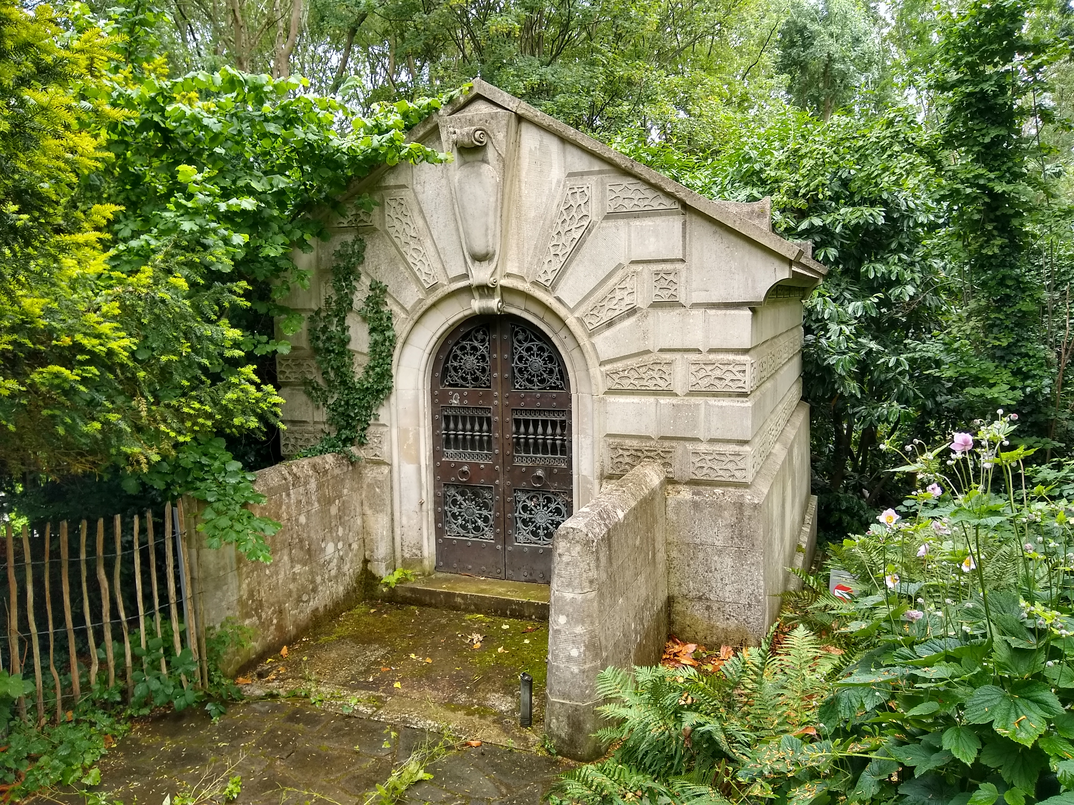 Sir Cory Francis Cory-Wright (1839-1909) was a wealthy London coal-merchant and public figure. His firm, William Cory & Son, was one of London's largest coal importers and its successor, Cory Environmental, still trades today as a waste disposal company. He lived for much of his life in the Highgate area, latterly at Caen Wood Towers, now Athlone House, on Hampstead Lane. He campaigned for the preservation of Queen's Wood, Highgate as a public amenity, and was one of the principal donors to the campaign to secure Alexandra Palace and its grounds as a public park. He was created Baronet in 1903.